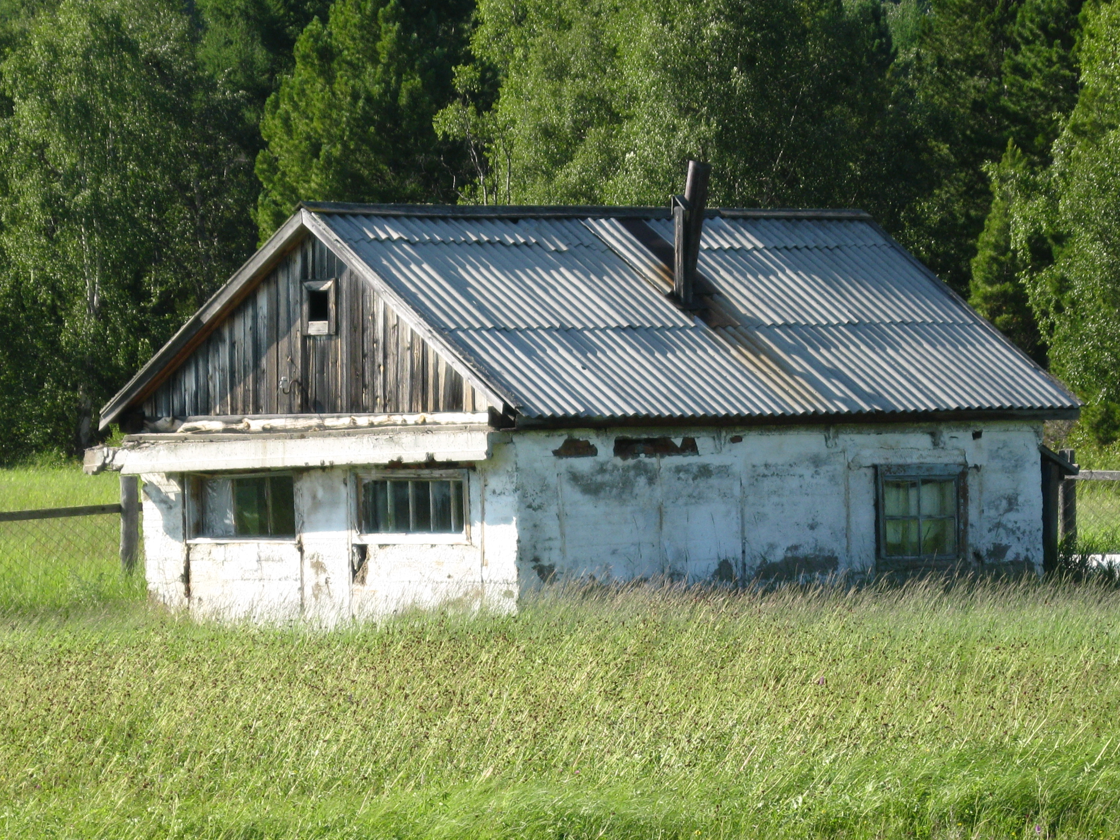 Geothermal spring in Davsha, Buryatia, Russia